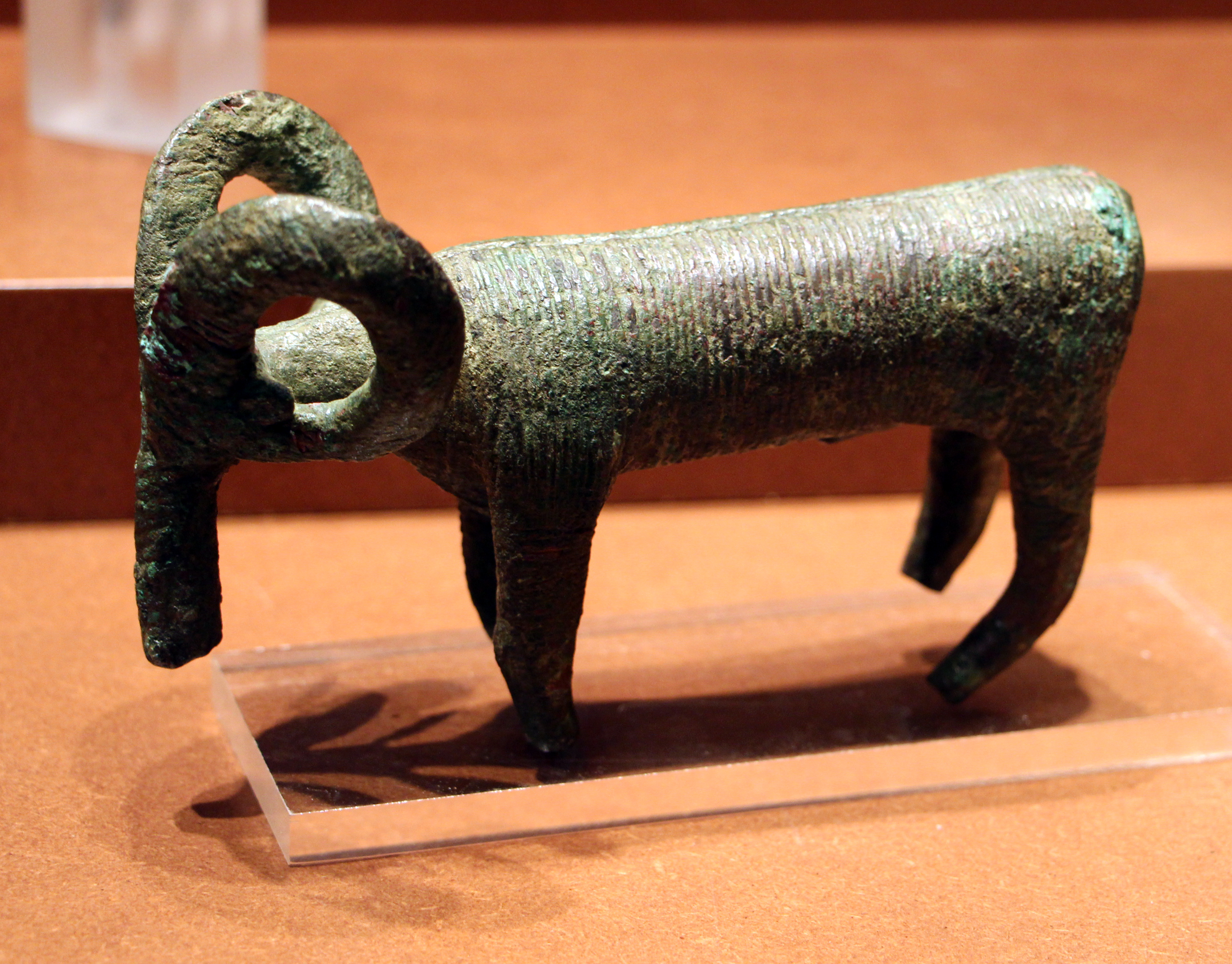 Ichnussa (2014 exhibition)